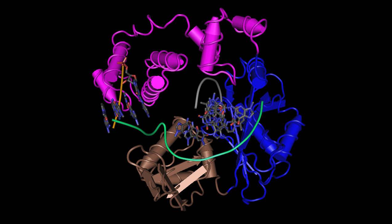 Crystal structure of human DNA polymerase lambda